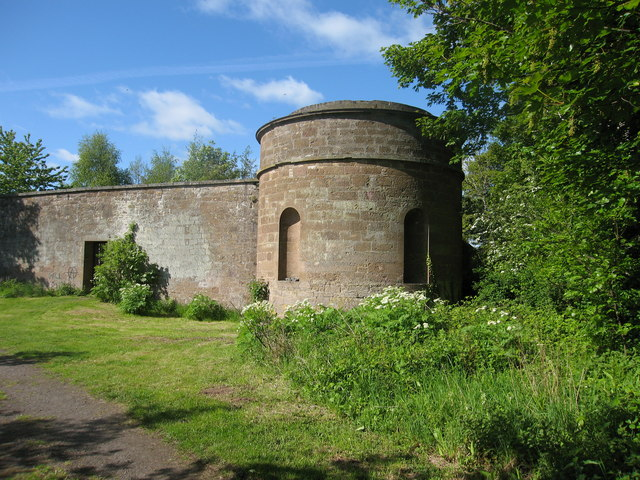 Amisfield Walled Garden. Large walled garden of Amisfield House. The house was demolished in 1928, but the garden remains. There are 4 circular corner pavilions originally domed. This is the NE pavilion.